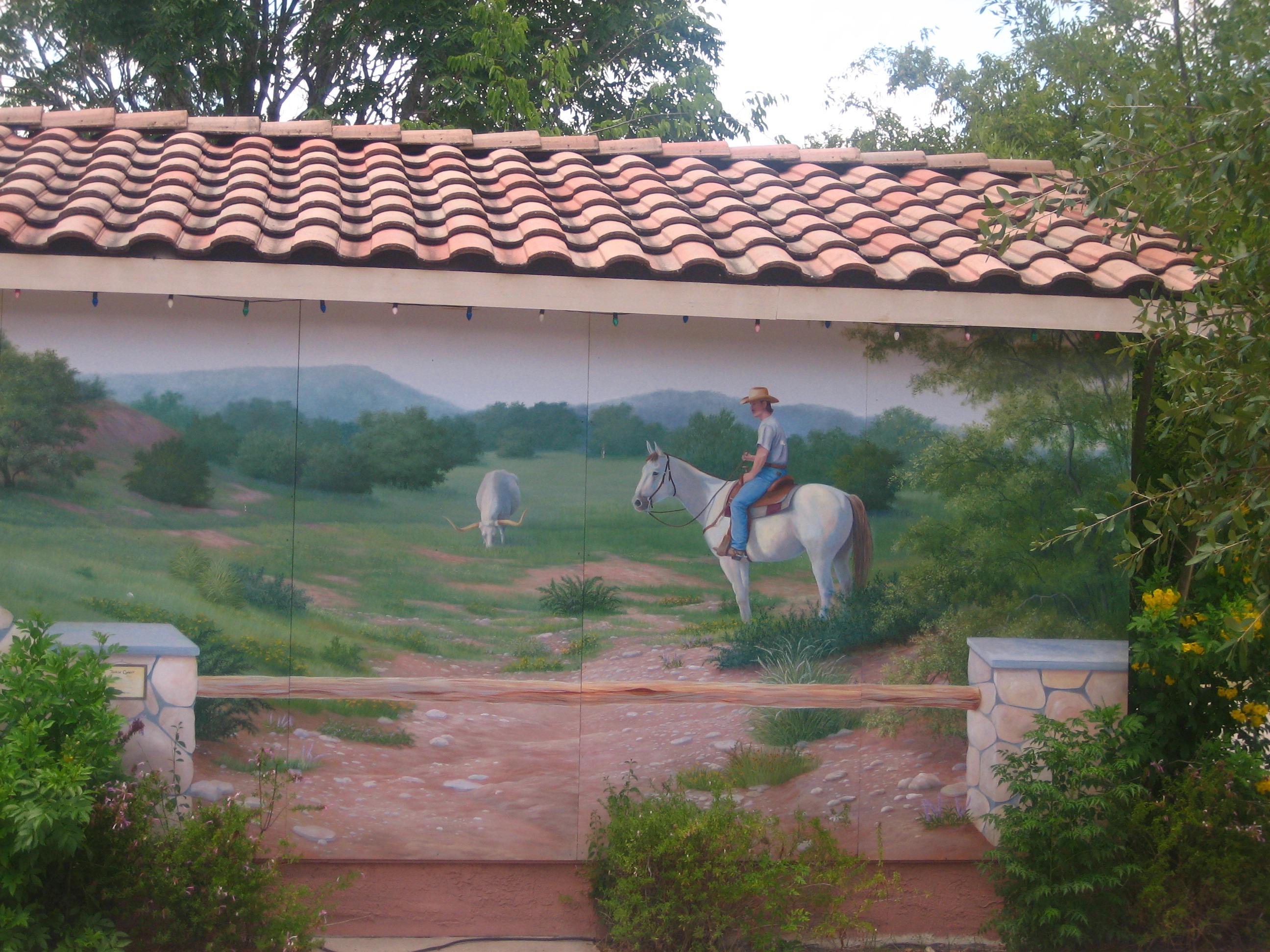 I took photo on July 19, 2008.Billy Hathorn (talk) 04:03, 4 February 2009 (UTC)